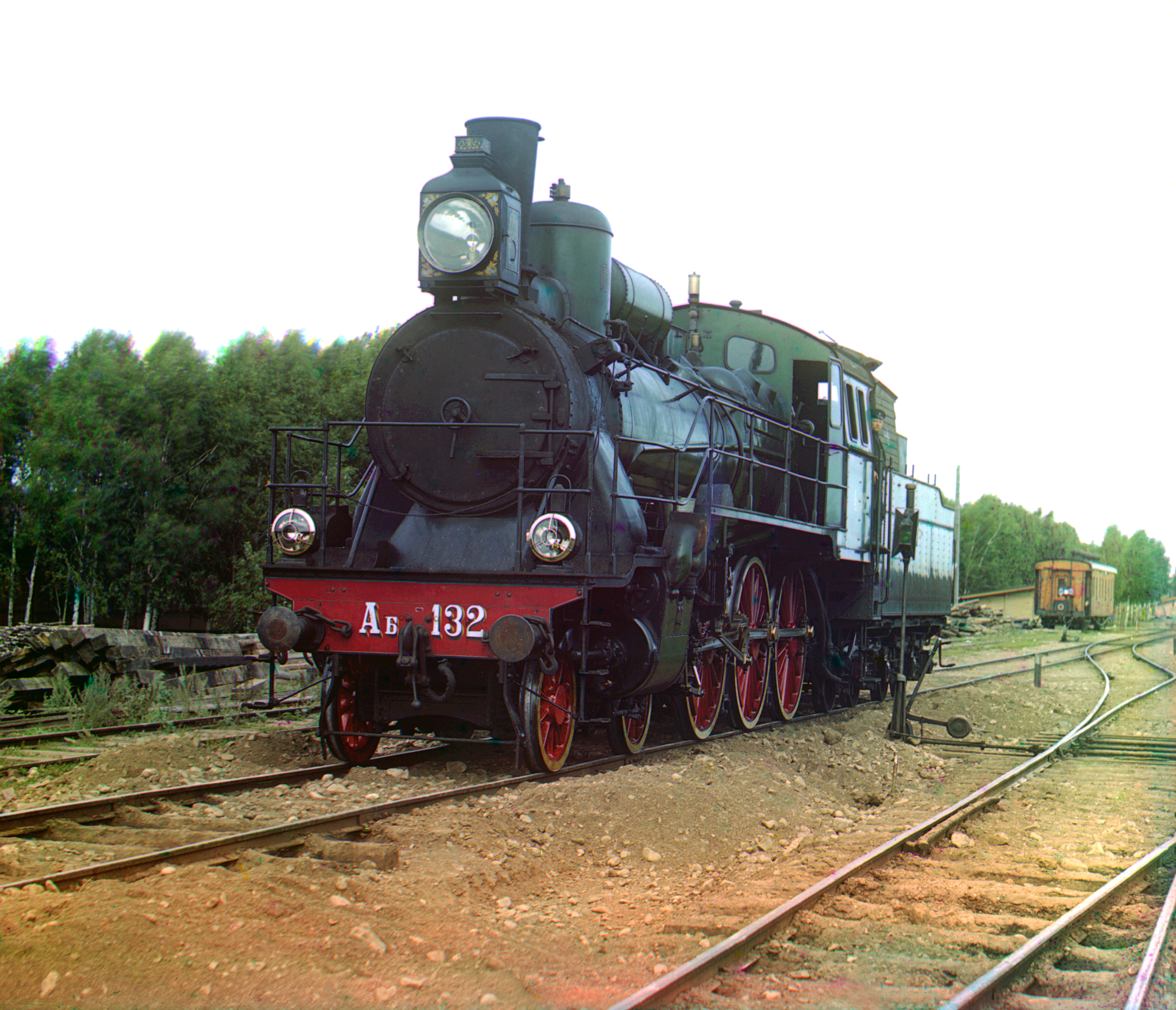 Early color photograph from Russia, created by Sergei Mikhailovich Prokudin-Gorskii as part of his work to document the Russian Empire from 1909 to 1915. A w: steam locomotive type Ab-132, later reclassified as B-51 (Аб-132, позднее Б-51 -- cycillic characters) with a Schmidt boiler on the railroad between Perm and Yekaterinburg in the Ural Mountains region in the far eastern part of European Russia. Built at the Bryansk factory, these B-series locomotives were designed for hauling high-speed passenger trains, and, until 1912, were the fastest locomotives on the Russian railways (125 km/hr).